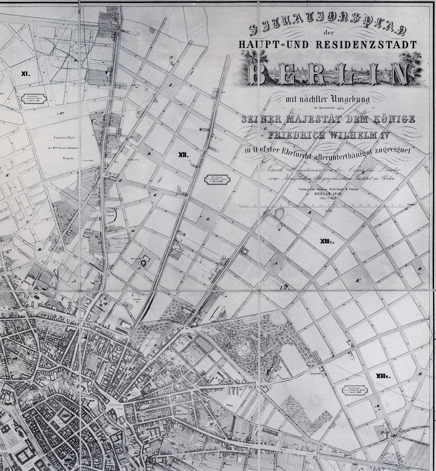 map of the so-called "Hobrecht plan" of the northeast of Berlins